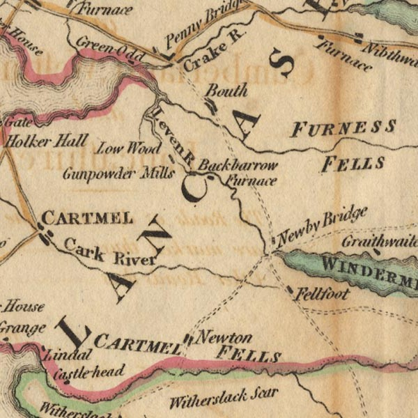 Detail of A Map of the Lakes in Cumberland, Westmorland and Lancashire, scale about 3.5 miles to 1 inch, in Guide to the Lakes (3rd edition 1821) by Thomas West.